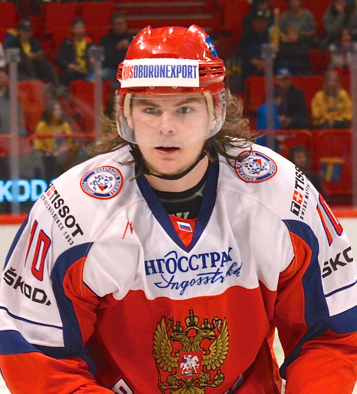 Viktor Tichonov during Oddset Hockey Games against Russia (2-0) at the Ericsson Globe in Stockholm on May 4th, 2014.